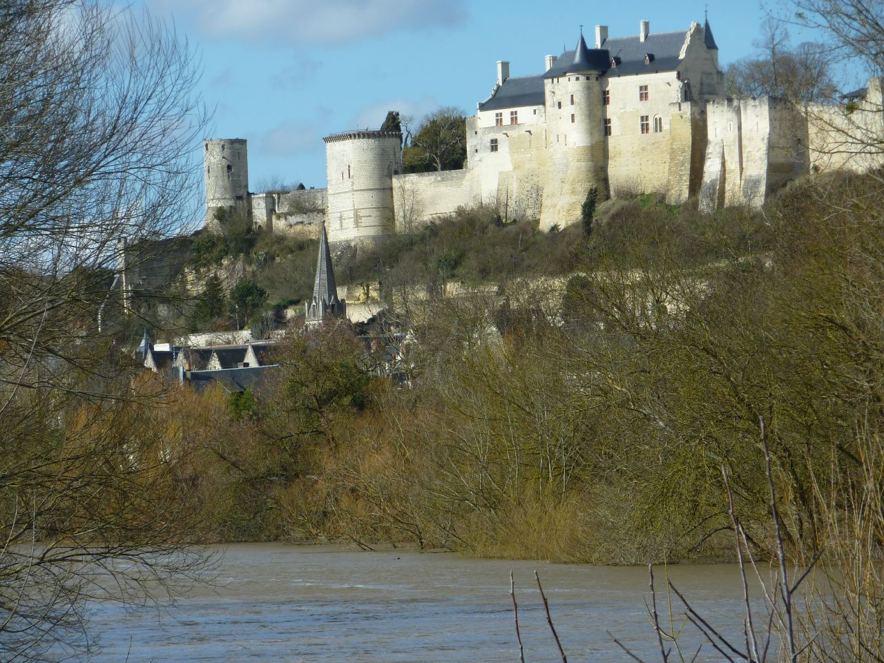 The Château de Chinon, and the Vienne river